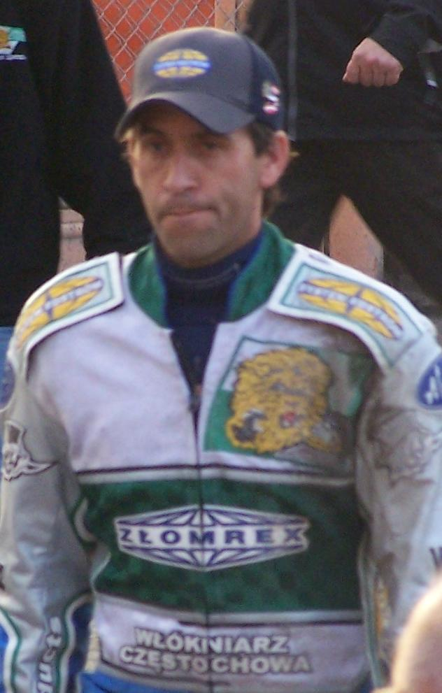 Greg Hancock, żużlowiec (speedway rider)